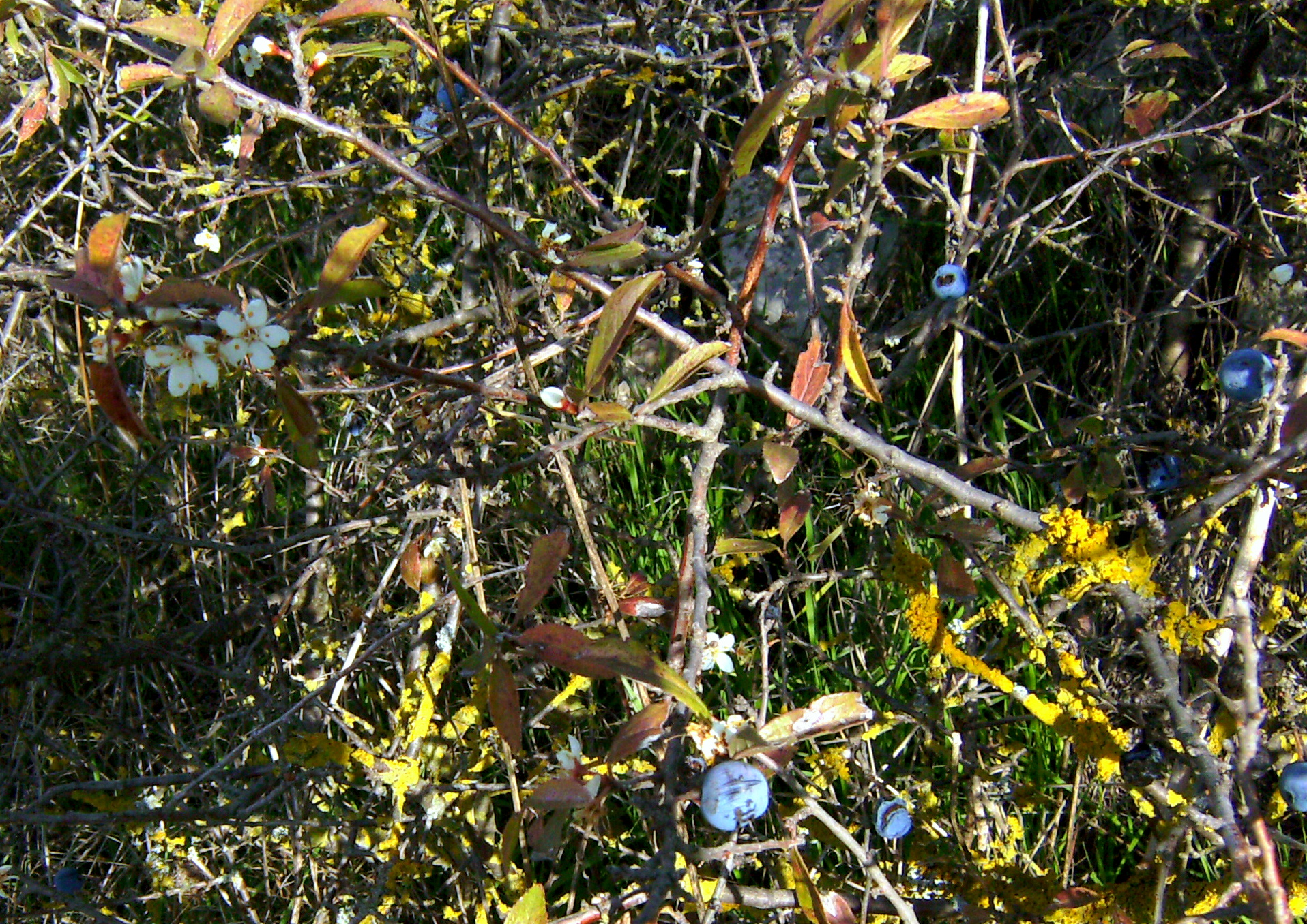 Prunus spinosa in november reflowering plant after summer drought